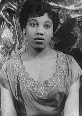 Portrait of Leontyne Price, opera singer